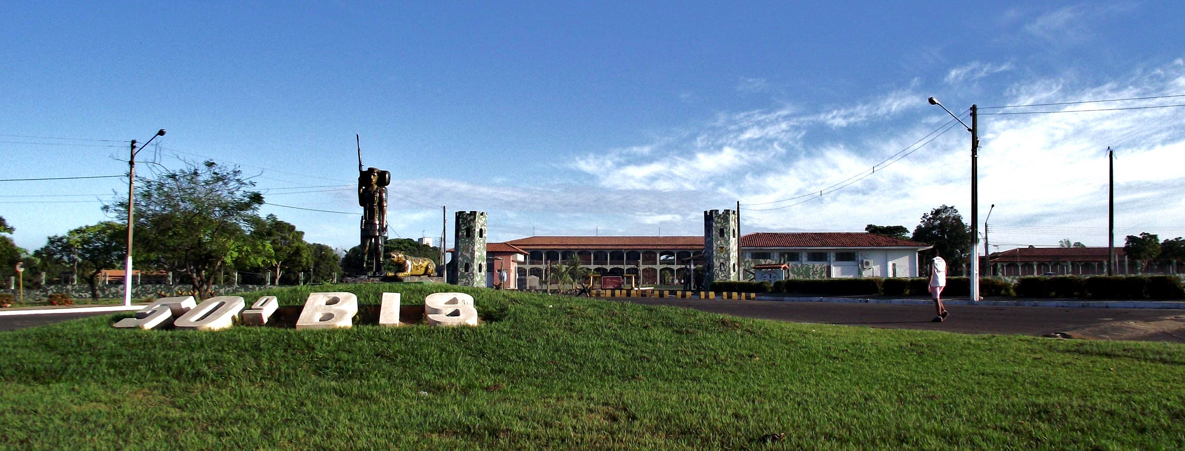 50th Jungle Infantry Battalion, headquartered in the city of Imperatriz (MA).